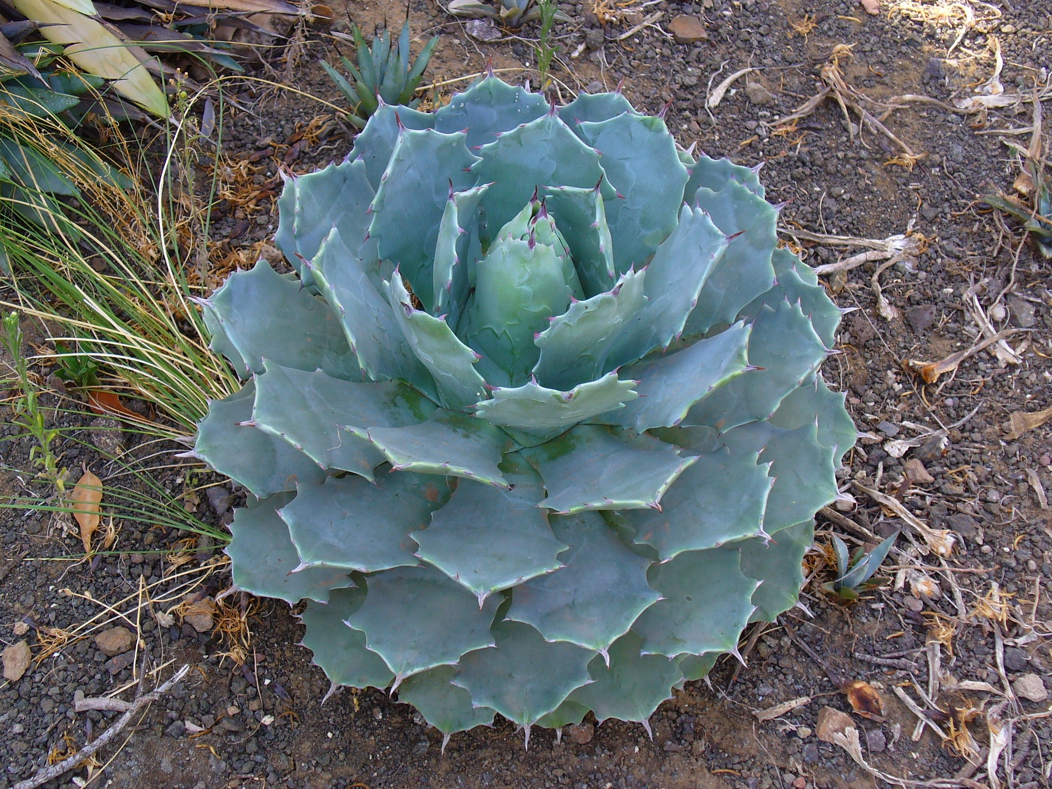 Butterfly Agave, Leaf rosette; Cactualdea, Tocodoman, Gran Canaria, Spain.